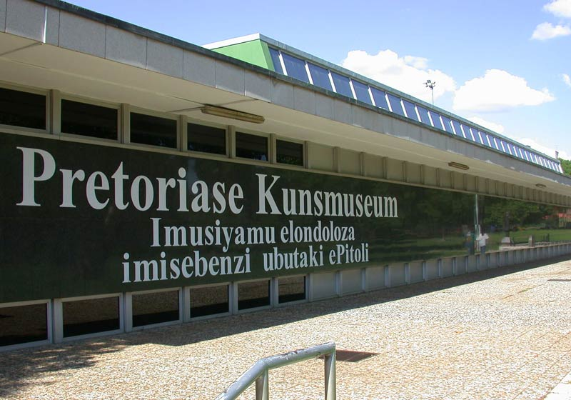 Side view of the Pretoria Art Museum in Arcadia, Pretoria